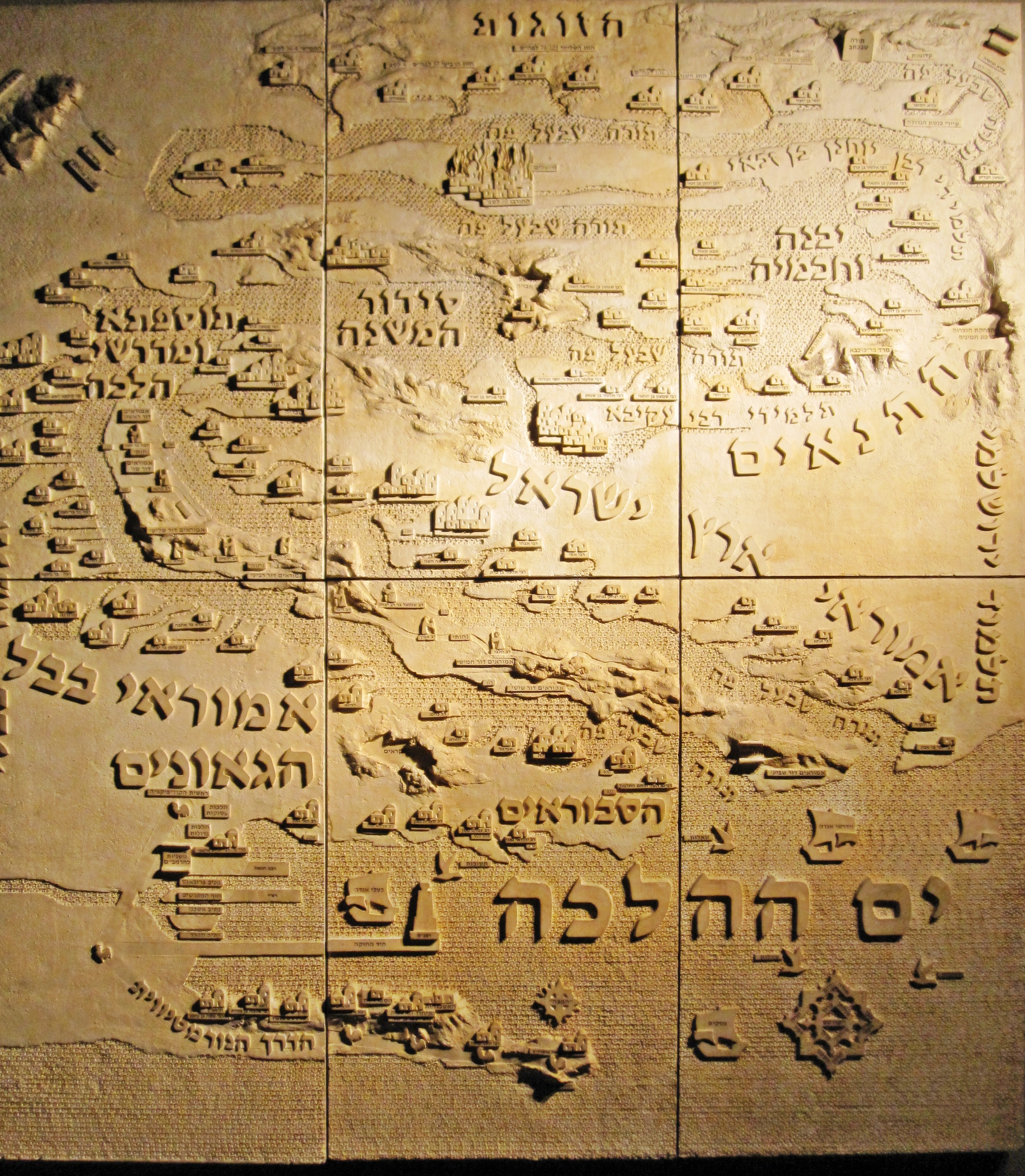 This is a photo of an exhibit at the Diaspora Museum, Tel Aviv - Beit Hatefutsot. Depicts the development of Jewish Oral law. The Note below the relief states: "The relief depics the development of the Oral Law as the course of a rive. It starts as a small stream (upper part of the exhibit) whose gentle flow gradually becomes a strong current in the spiritual landscape of the Jewish people (centre), eventually reaching the sea of the Halakha (lower part). The tributaries represent the contributions of the important sages, arranged in chronological order."